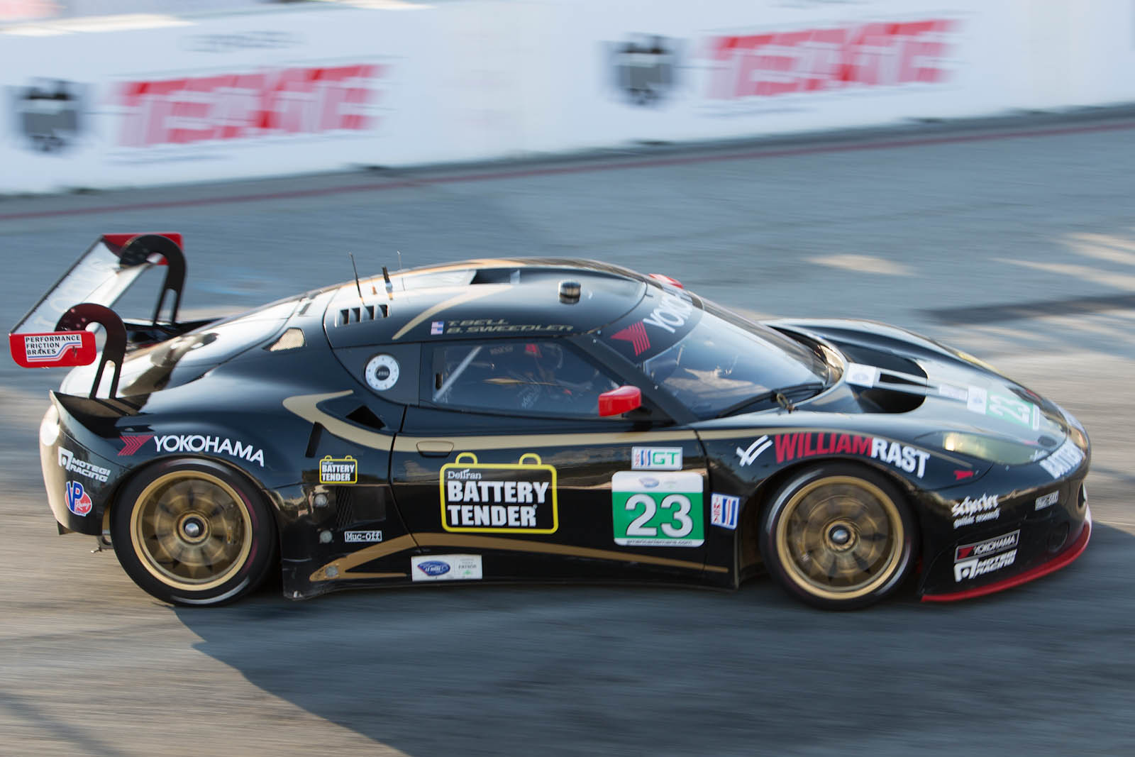 Townsend Bell in the Alex Job Racing Lotus Evora GTE at the 2012 American Le Mans Series at Long Beach.